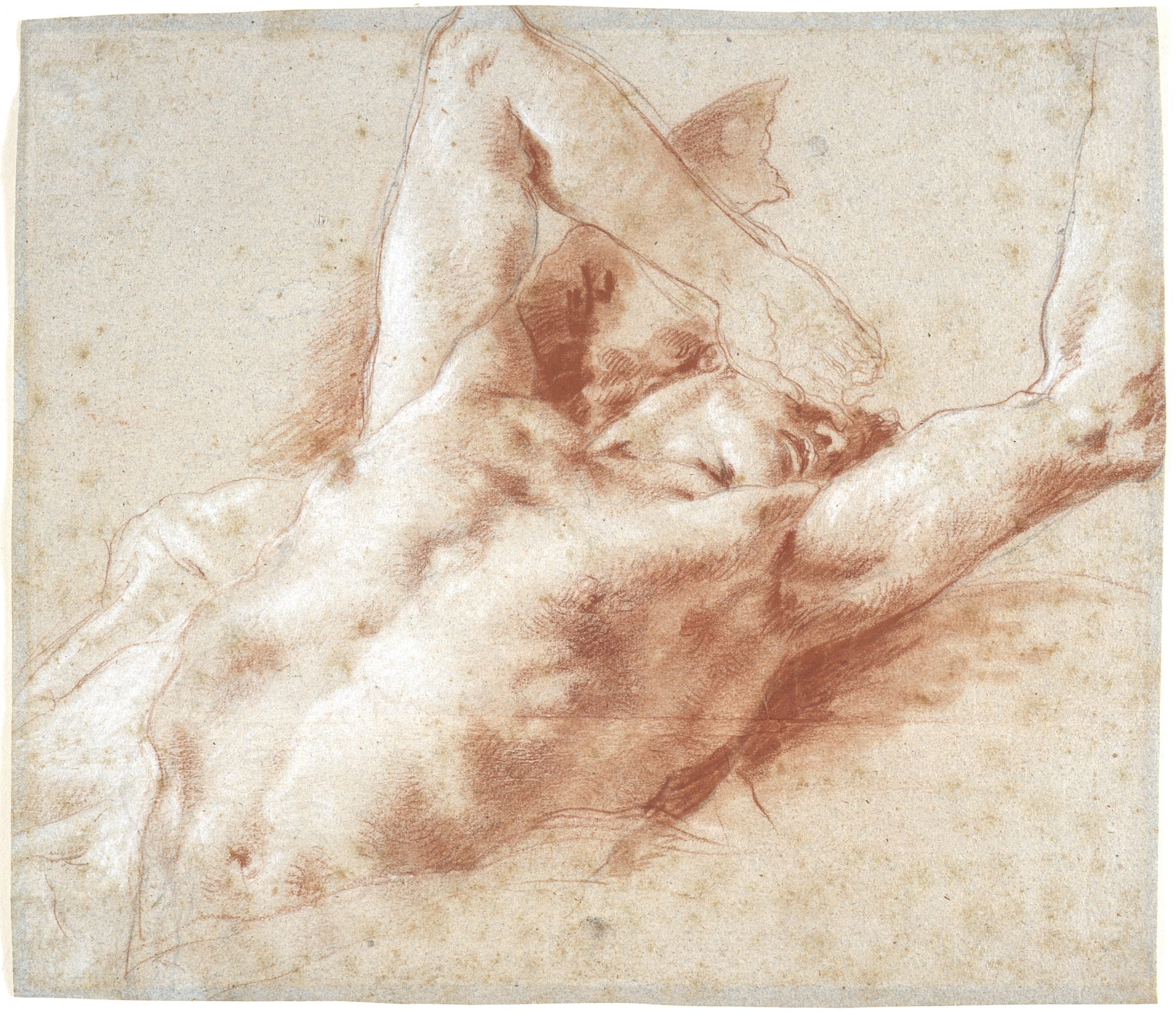 Prints and Drawings